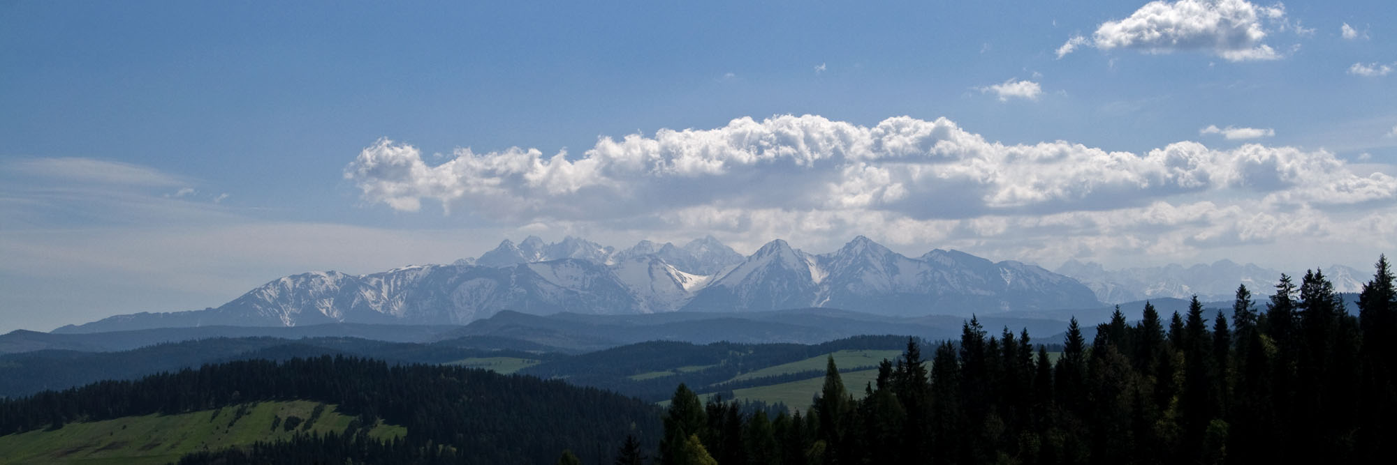 Tatra Mountains (panorama)